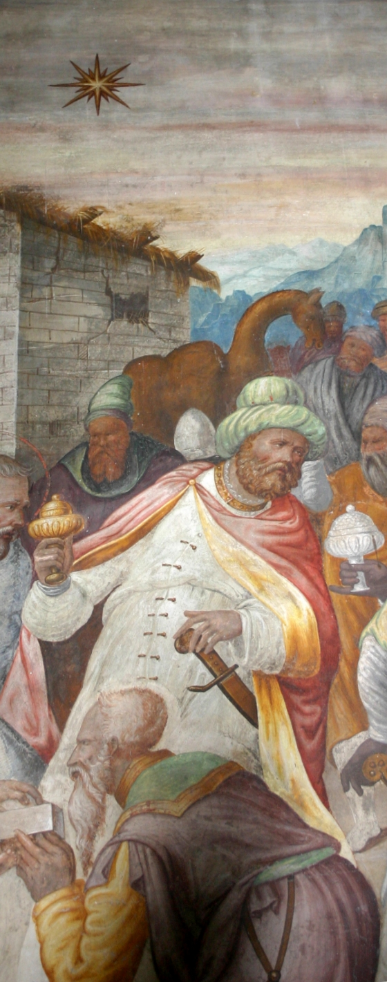 Unknown author, Adoration of the Magi. 17th century fresco, in the second chapel of the left nave in san Marco church at Milan. Picture by Giovanni Dall'Orto, April 14 2007.